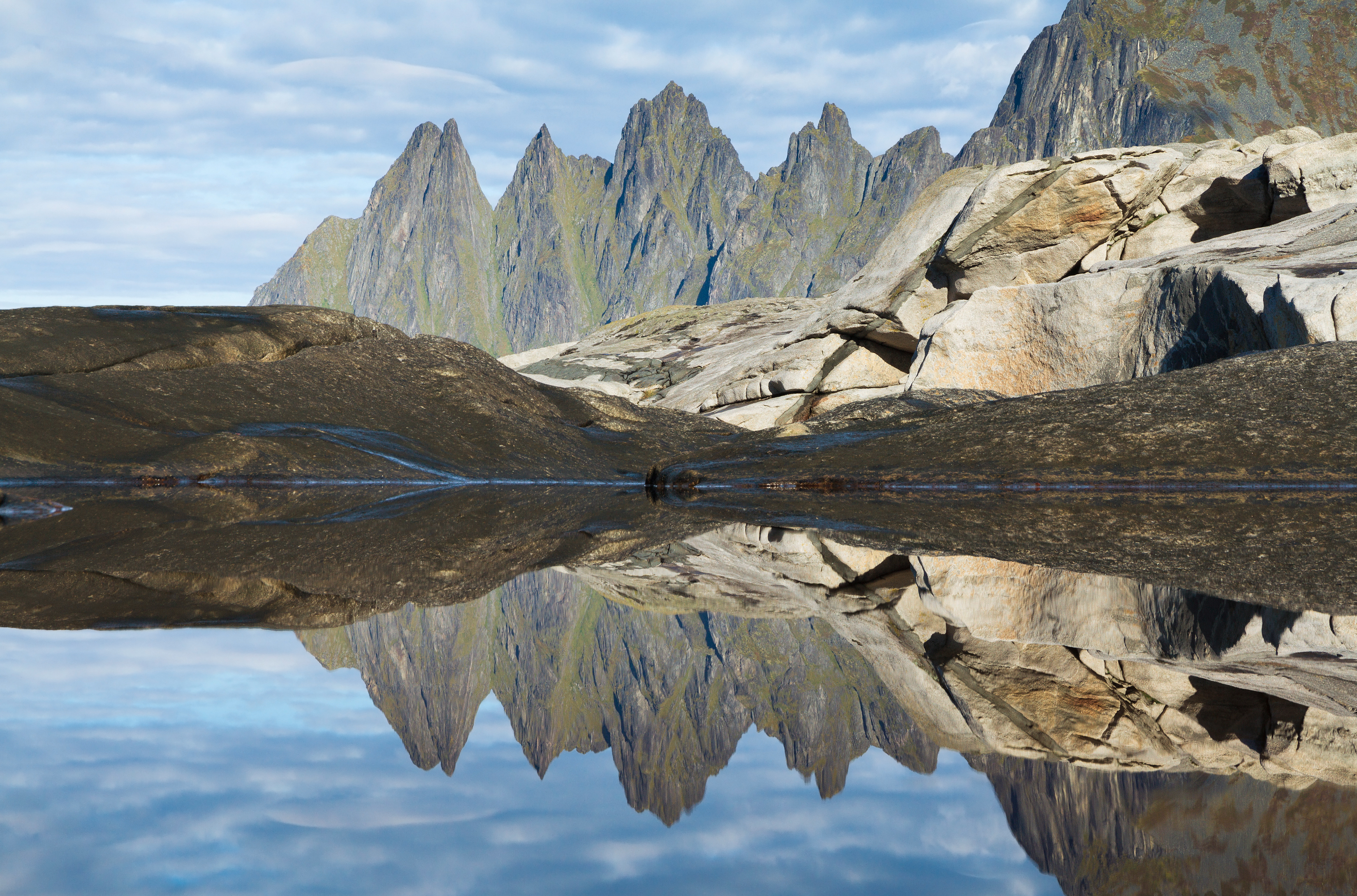 A view towards Okshornan peaks from Tungeneset in 2015 September. The mountains are reflected from a small puddle on the rocks.